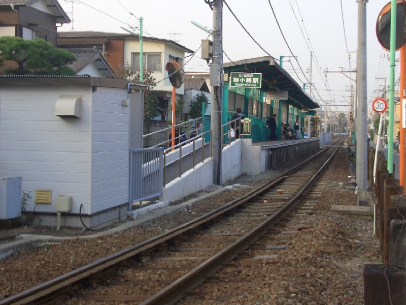 Platform of Yanagikoji Station, as seen from Kamakura direction